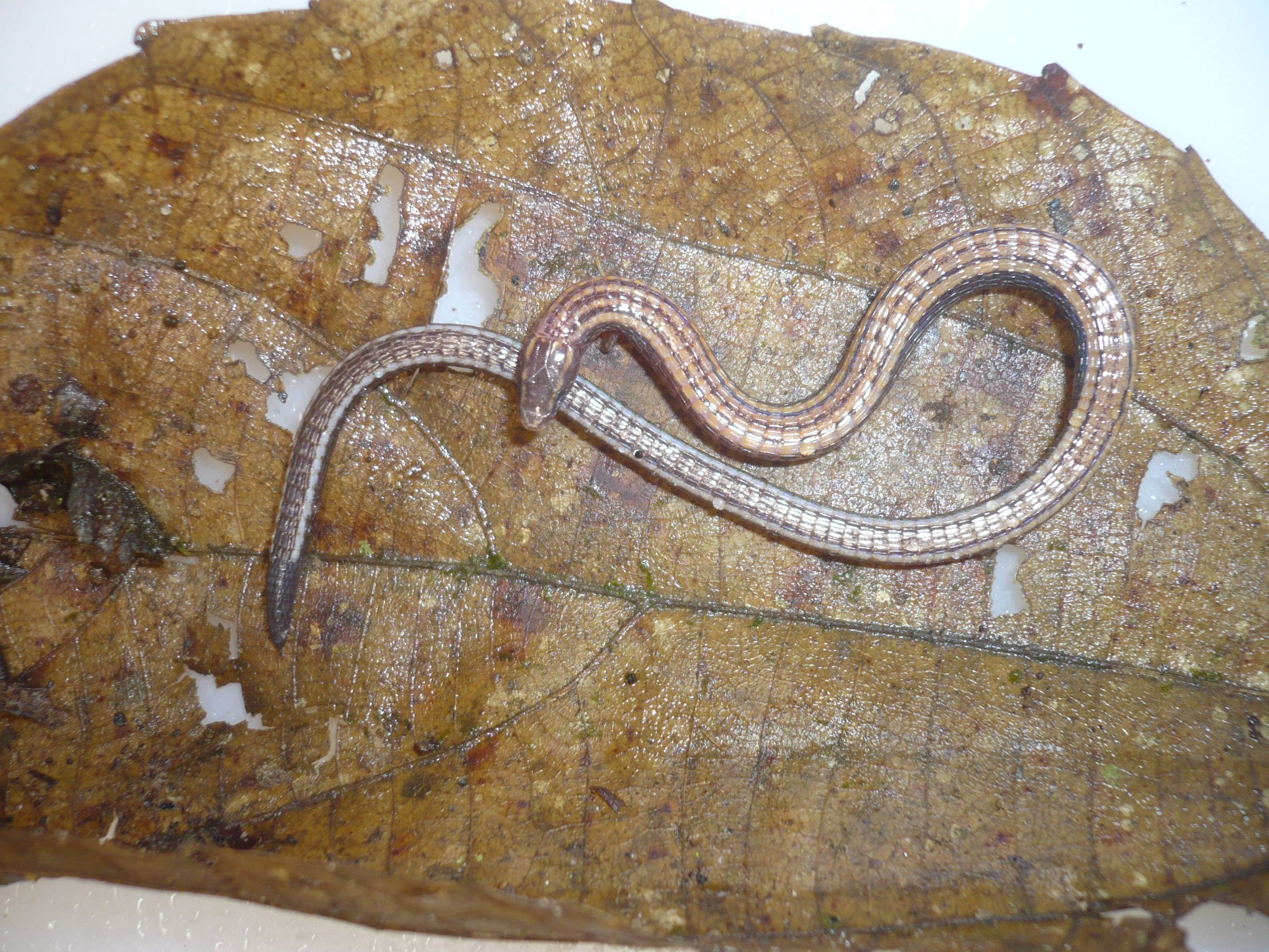 Bachia dorbignyi in Madre de Dios, Peru.